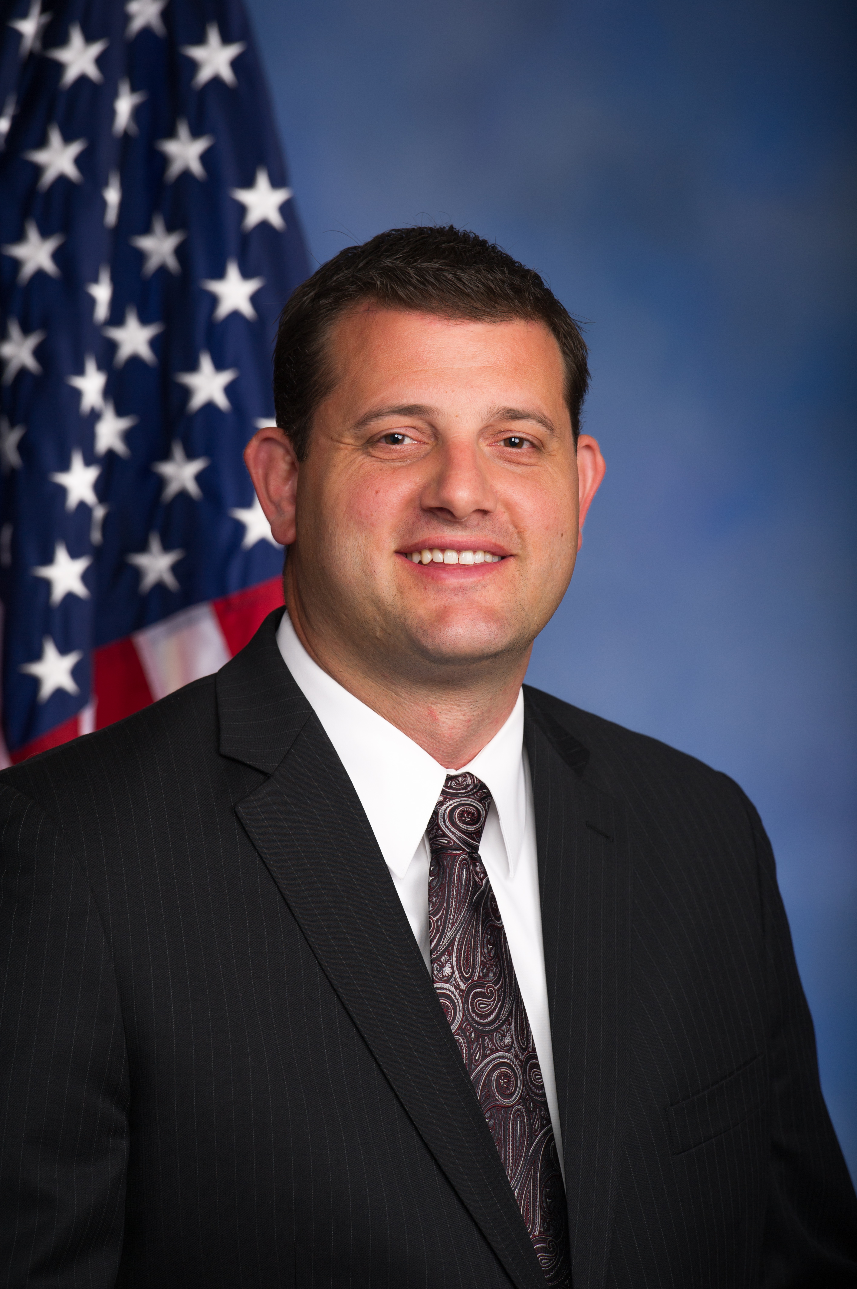 Congressman David Valadao